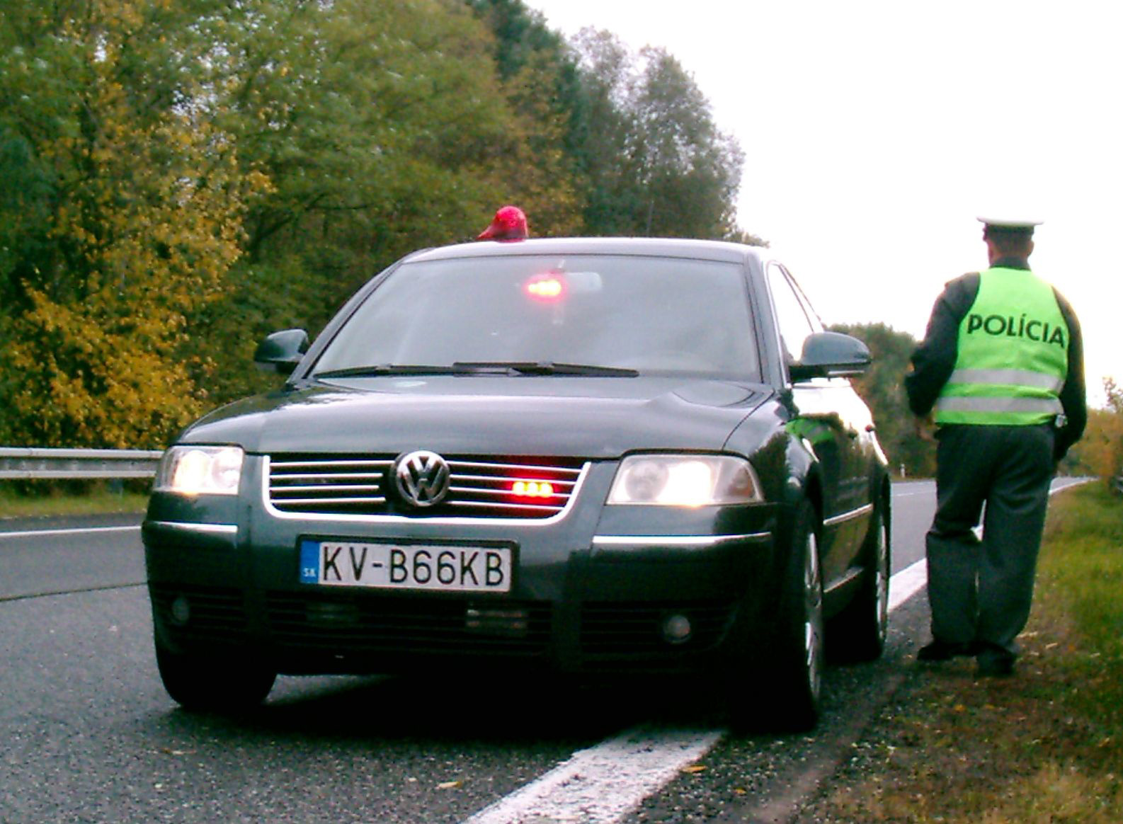 Unmarked police car Slovakia Passat B5; seen on motorway D2 near Malacky, Slovakia. The Number plate has been randomized.